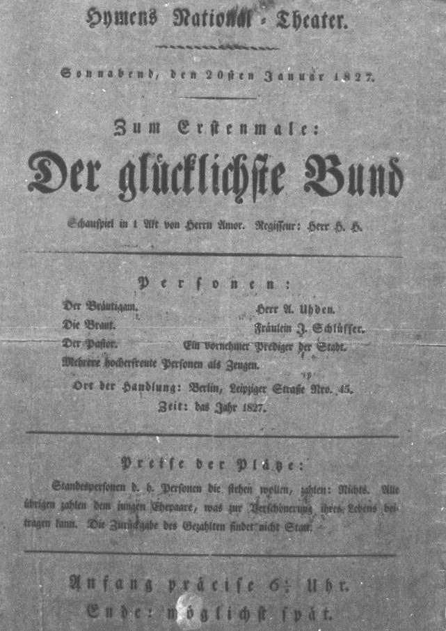 Wedding advertisement (1827) of Alexander (von) Uhden (1798-1878), prussian minister of justice, and Juliane Friderike Auguste Schlüsser (1802-1869) as theater program